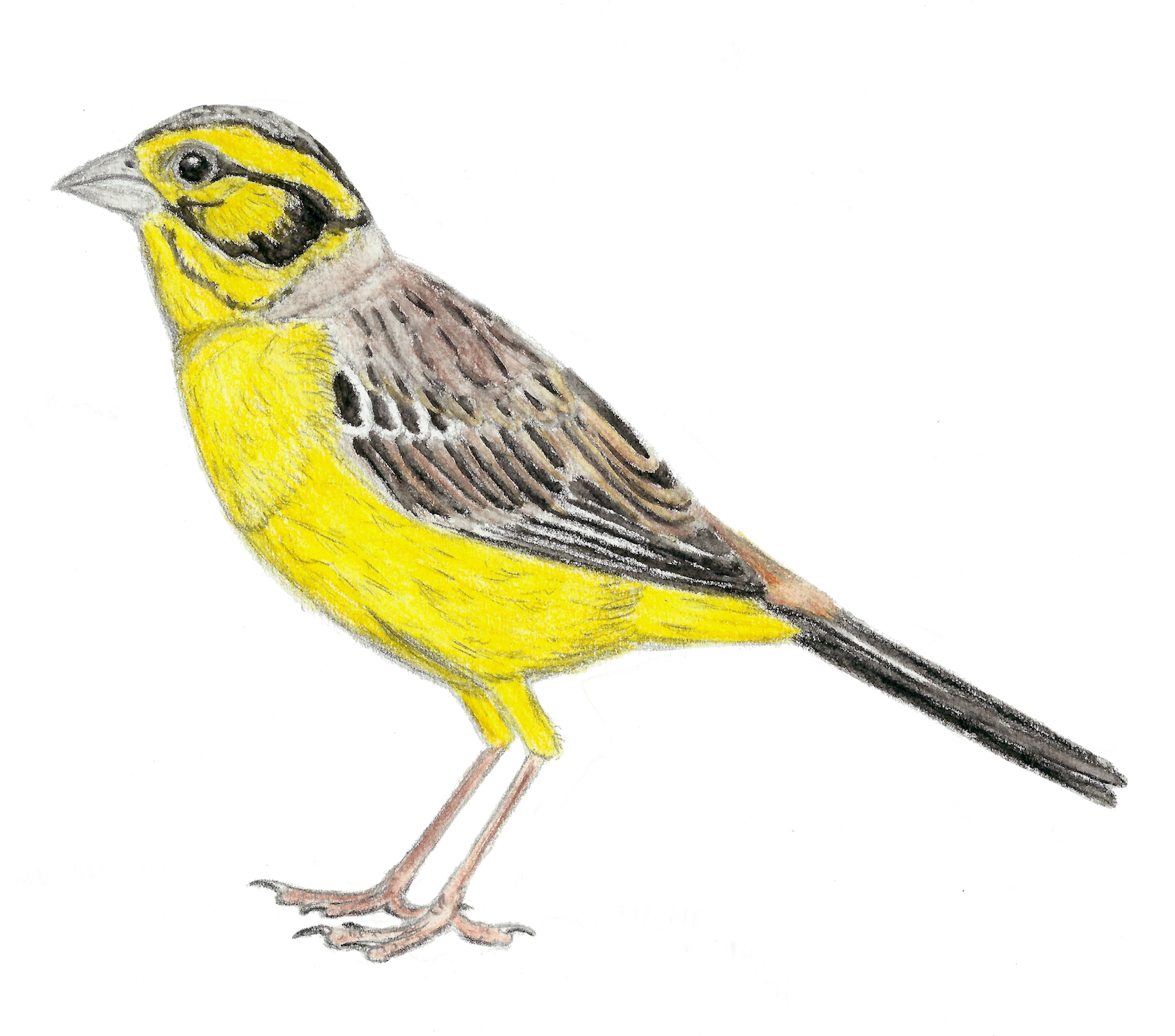 Life restoration of the long-legged bunting (Emberiza alcoveri), a flightless bird that lived in Tenerife (Canary Islands) during the Pleistocene and Holocene epochs